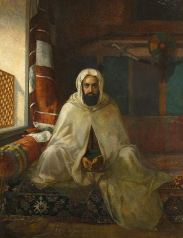 Portrait of Abd el-Kader painted in Constantinople